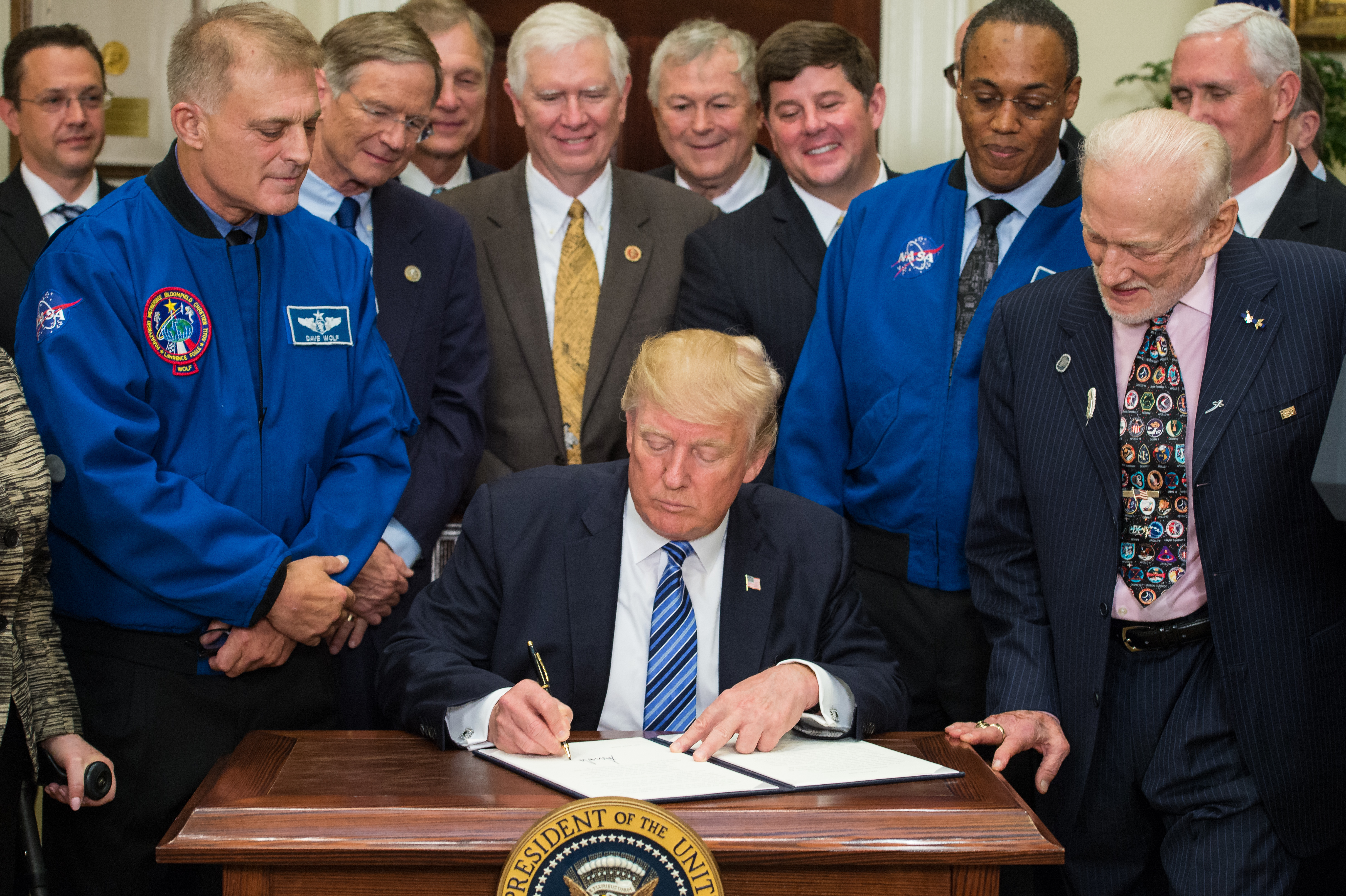 President Donald Trump, center, signs an Executive Order to reestablish the National Space Council, alongside members of the Congress, National Aeronautics and Space Administration, and Commercial Space Companies in the Roosevelt room of the White House in Washington, Friday, June 30, 2017. Vice President Mike Pence, also in attendance, will chair the council. Also pictured are retired NASA astronaut David Wolf, left, NASA Astronaut Alvin Drew, second from right, and retired NASA astronaut Buzz Aldrin, right.